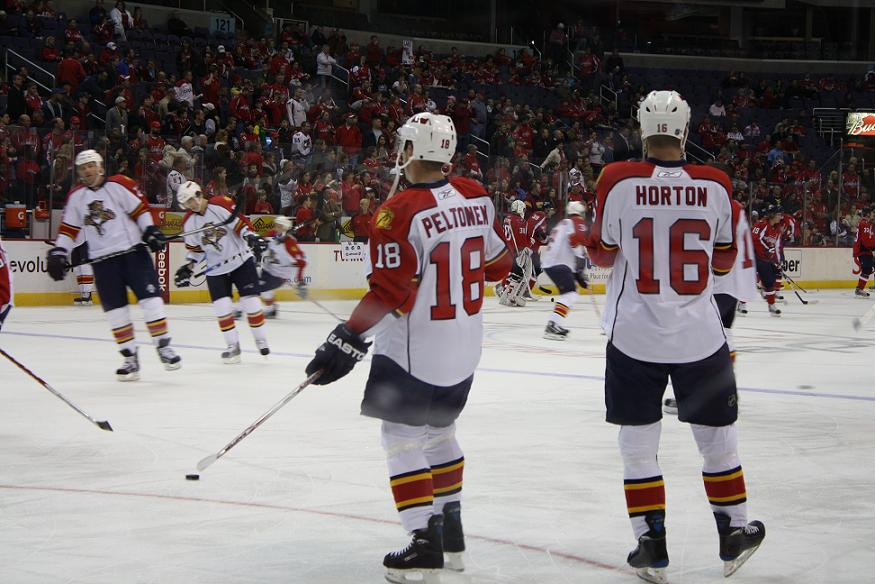 Ville Peltonen and Nathan Horton during the 2008-09 NHL season